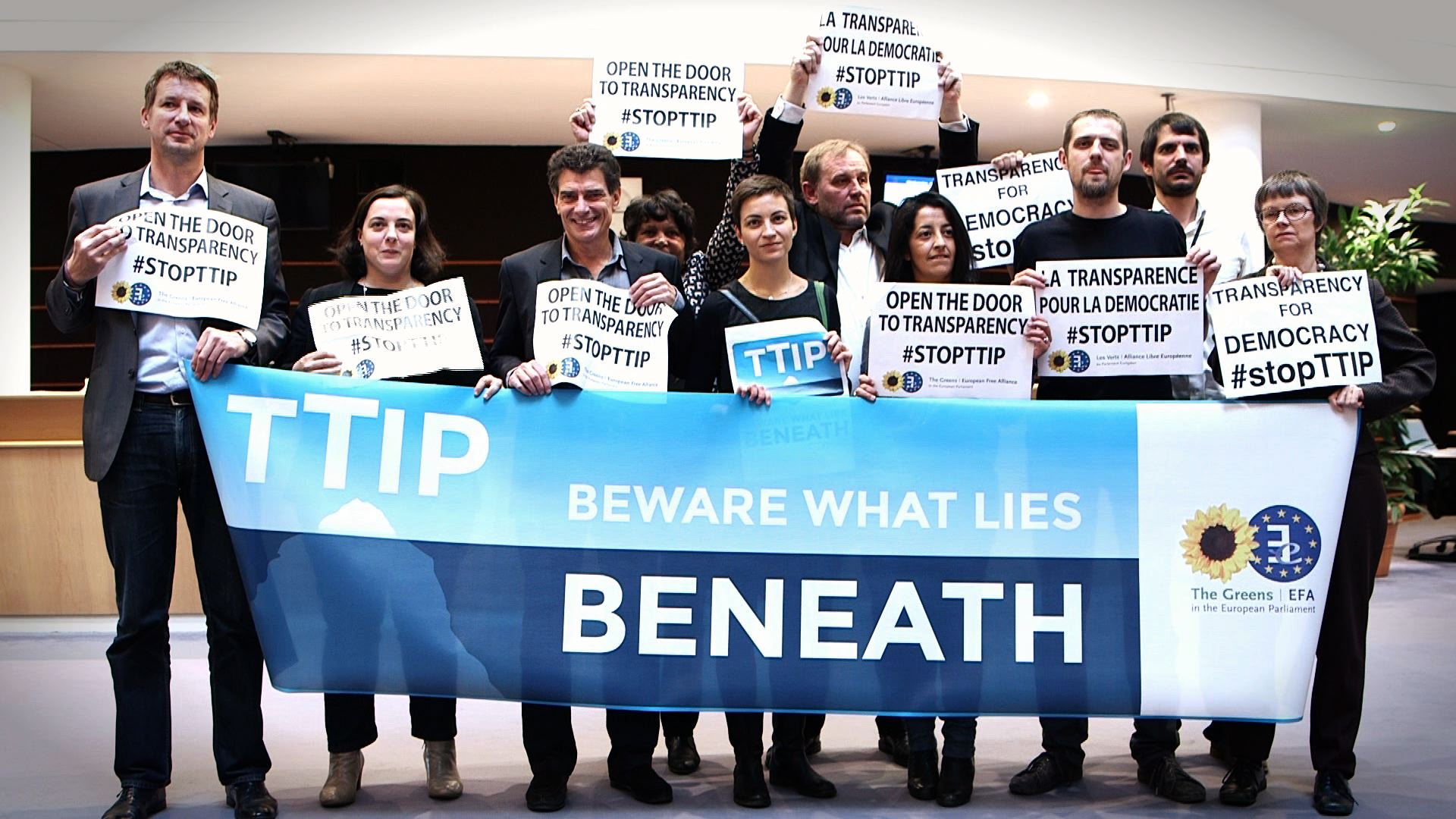 MEPs joined together outside the sealed reading room for documents relating to the Transatlantic Trade and Investment Partnership (TTIP) negotiations to demand transparency in this EU-US trade deal. Only a few have access to this room and the documents, and they cannot report on the contents. Given how TTIP will impact on all of our daily lives, this is a deplorable situation. Find out more on our campaign on our blog ttip2014.eu/ Follow the campaign on twitter